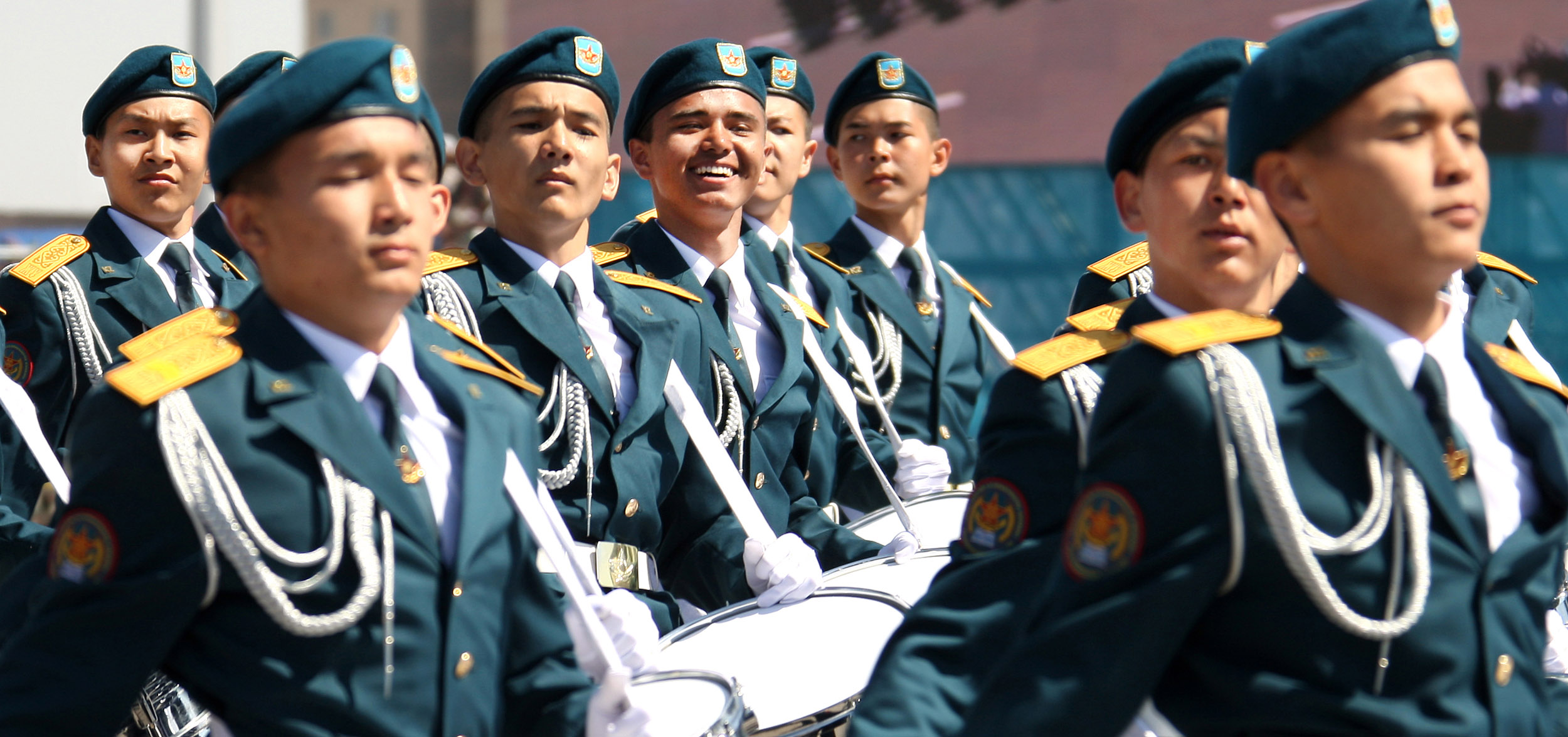 Республиканская школа Жас Улан имени Генерала Армии Сагадат Кожахметович Нурмагамбе́тов на парад.